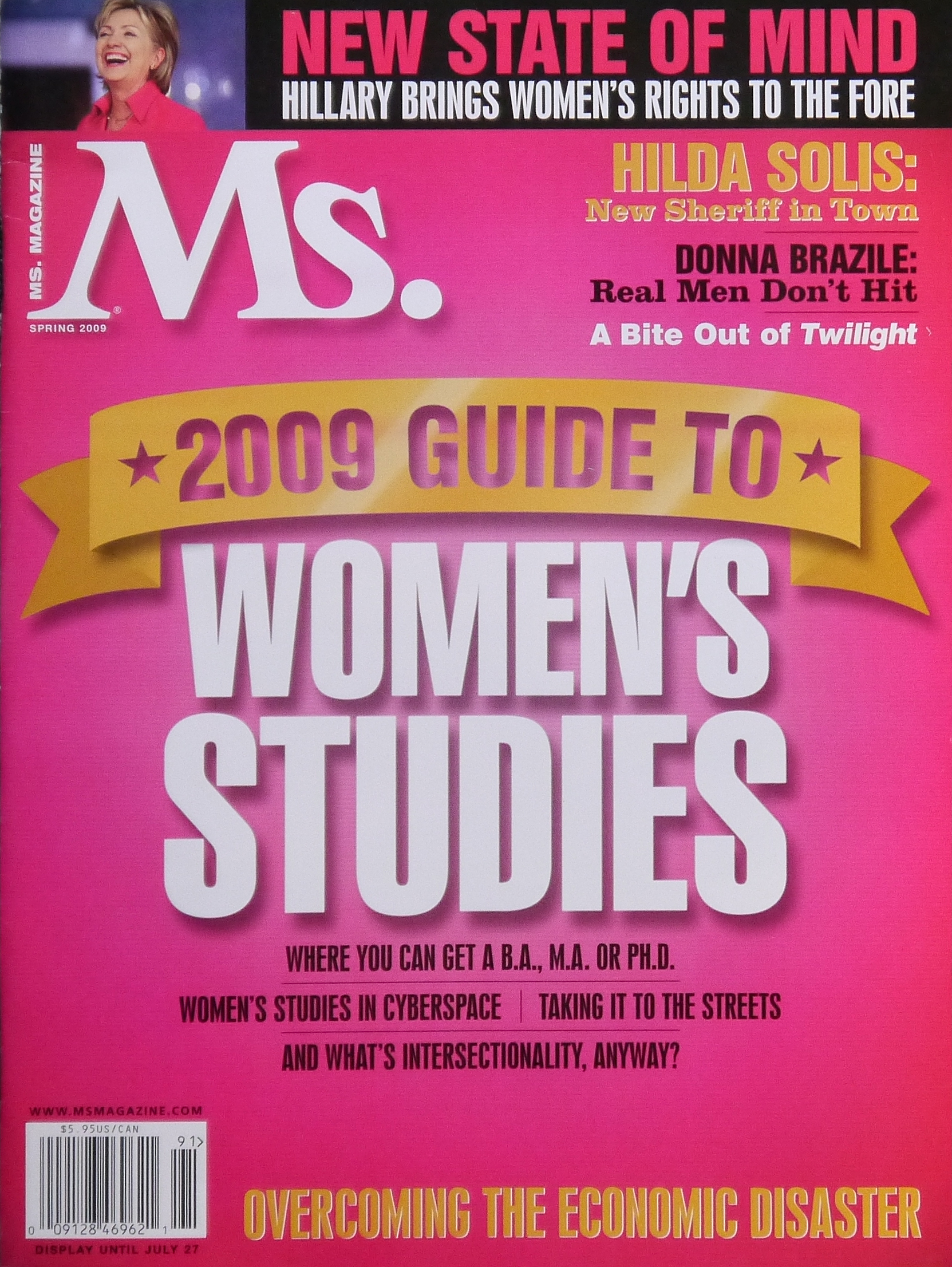 Ms. magazine, Spring 2009 Women's studies issue